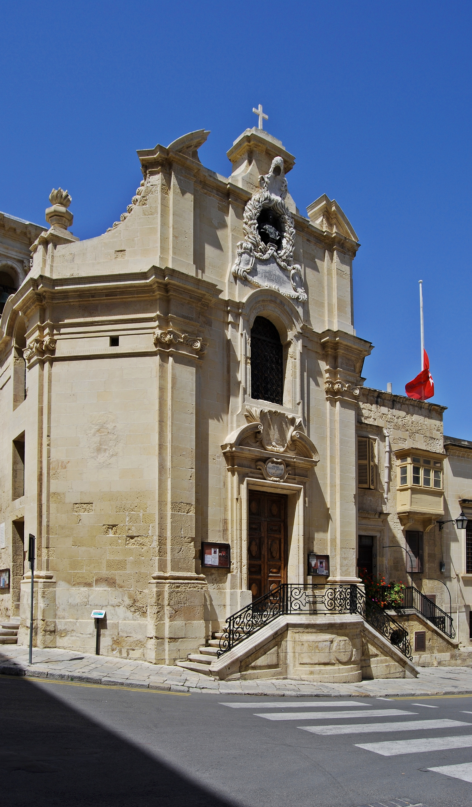 Our lady of victories church, Valletta, Malta.